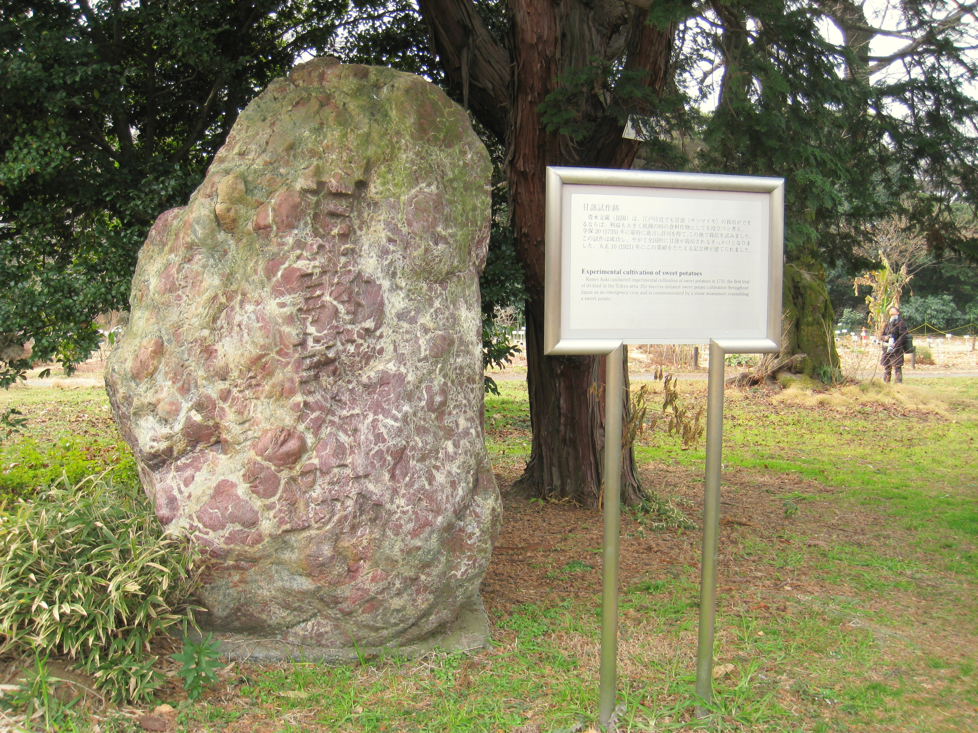 Koishikawa Botanical Gardens, Tokyo, Japan - monument to Konyo Aoki, who introduced sweet potatoes to Japan in 1735.